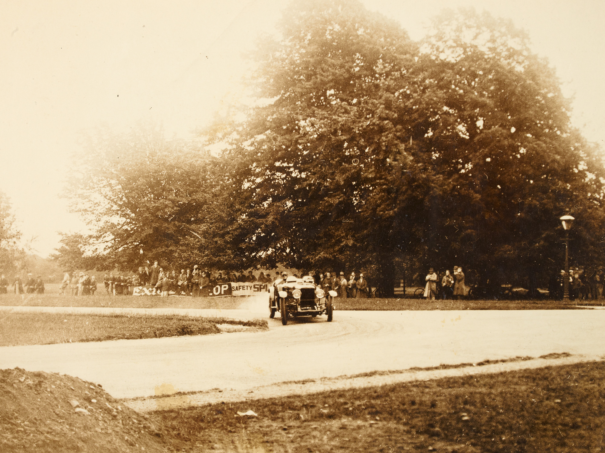 Contributed by Bob Montgomery 2012: "This photograph was taken during Thursday practice for the 1929 RIAC Irish International Grand Prix. Malcolm Campell drove this Sunbeam in the race." And thanks to Bob, we now also know that this race was on Thursday, 11 July 1929, and that Campbell retired from the race "with a slipping clutch and a spluttering engine." Surely not a good combination! Date: Thursday, 11 July 1929 NLI Ref.: HOG193